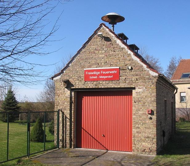 Station of the volunteer fire department in Schiaß. The village Schiaß is a part of the town Ludwigsfelde in the district Teltow-Fläming, state Brandenburg, Germany. The village is situated in the Nature park Nuthe-Nieplitz.